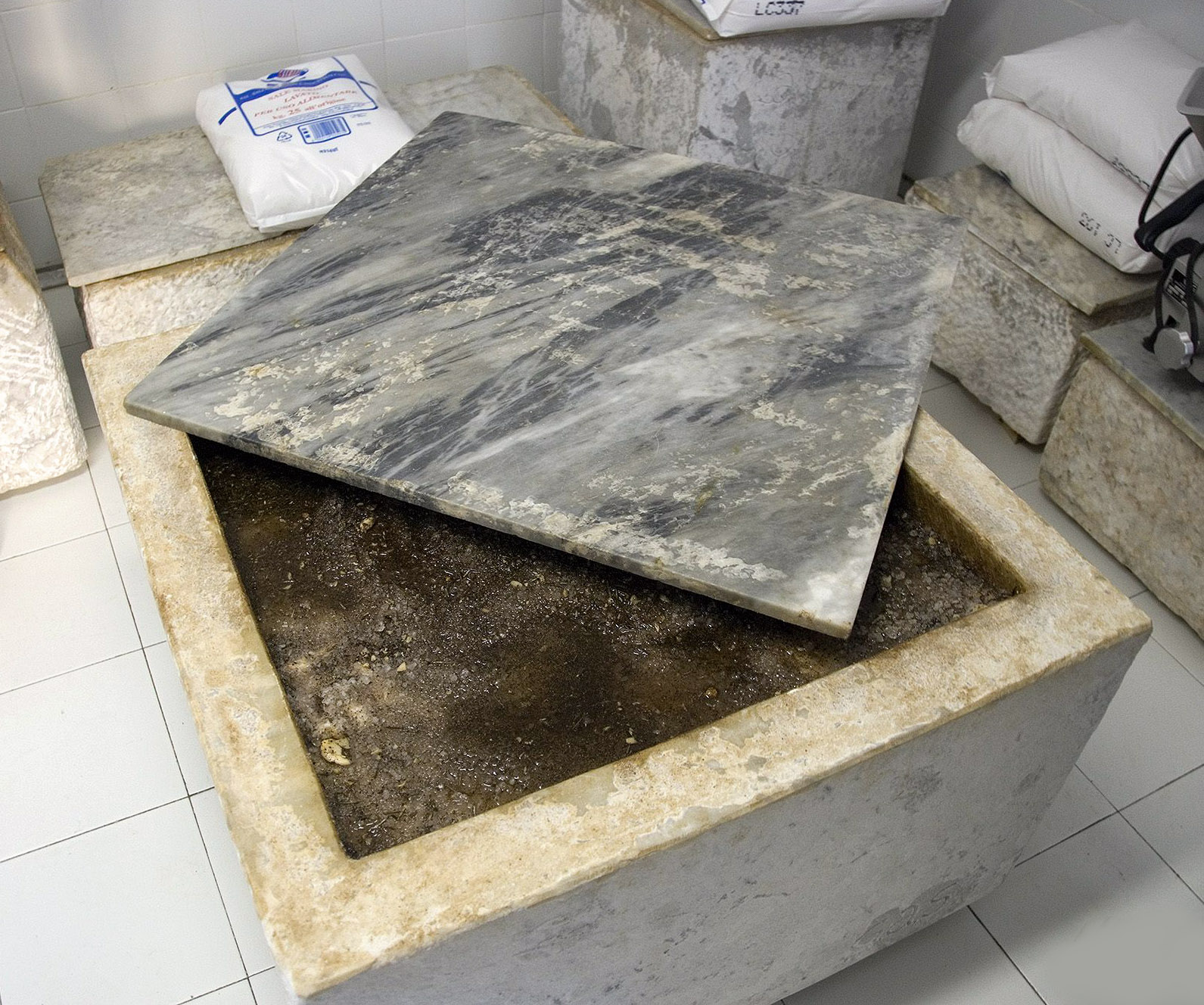 Lardo di Colonnata cured with salt and spices in a marble tub (conca) - Colonnata, Italy.